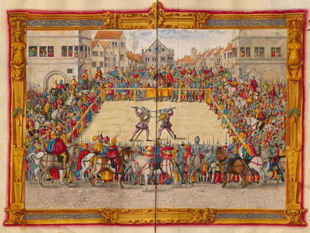 Judicial duel between Marshal Wilhelm von Dornsberg and Theodor Haschenacker in the Augsburg wine market (1409). Dornsberg's sword broke early in the duel, but he succeeded to kill Haschenacker with his own sword. Their shields were kept in St. Leonard's Church outside Augsburg until they were destroyed in 1542.